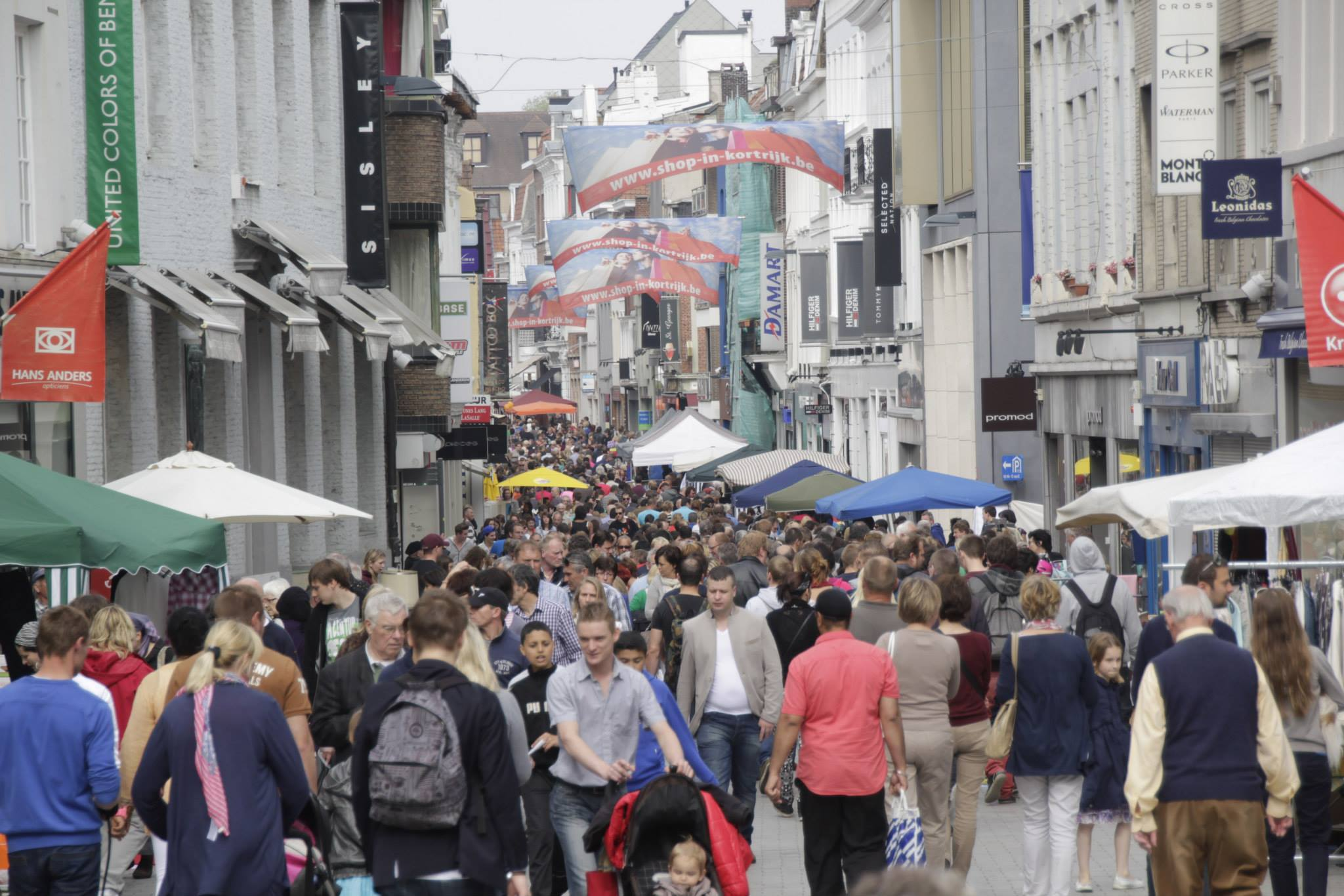 Shopping street Lange Steenstraat in Kortrijk (Courtrai), Belgium (19 May 2013)